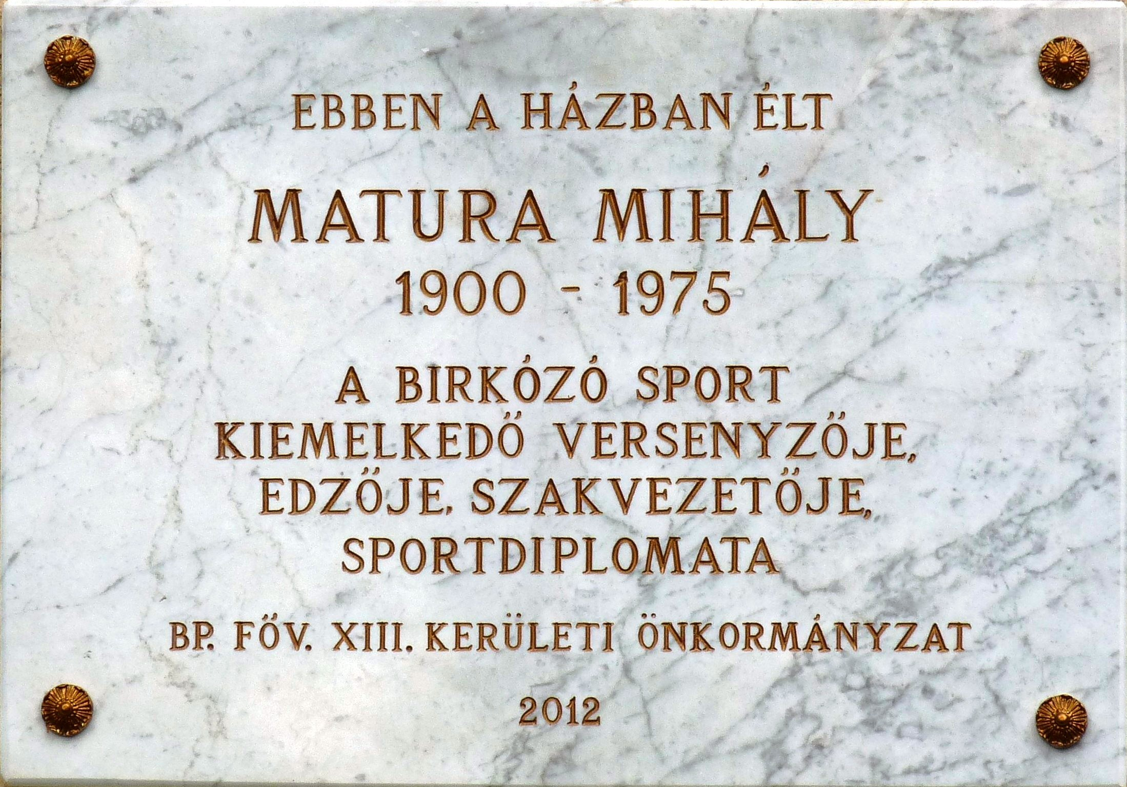 Commemorative plaque to Mr. Mihály Matura (1900-1975) Hungarian wrestler, trainer and sports manager. The plaque is affixed at the entrance of his former house. It was unveiled on April 5, 2012. (Budapest, District XIII, Tahi Street Nr 58).